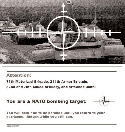 Nato flayer during the Kosovo War 1999.